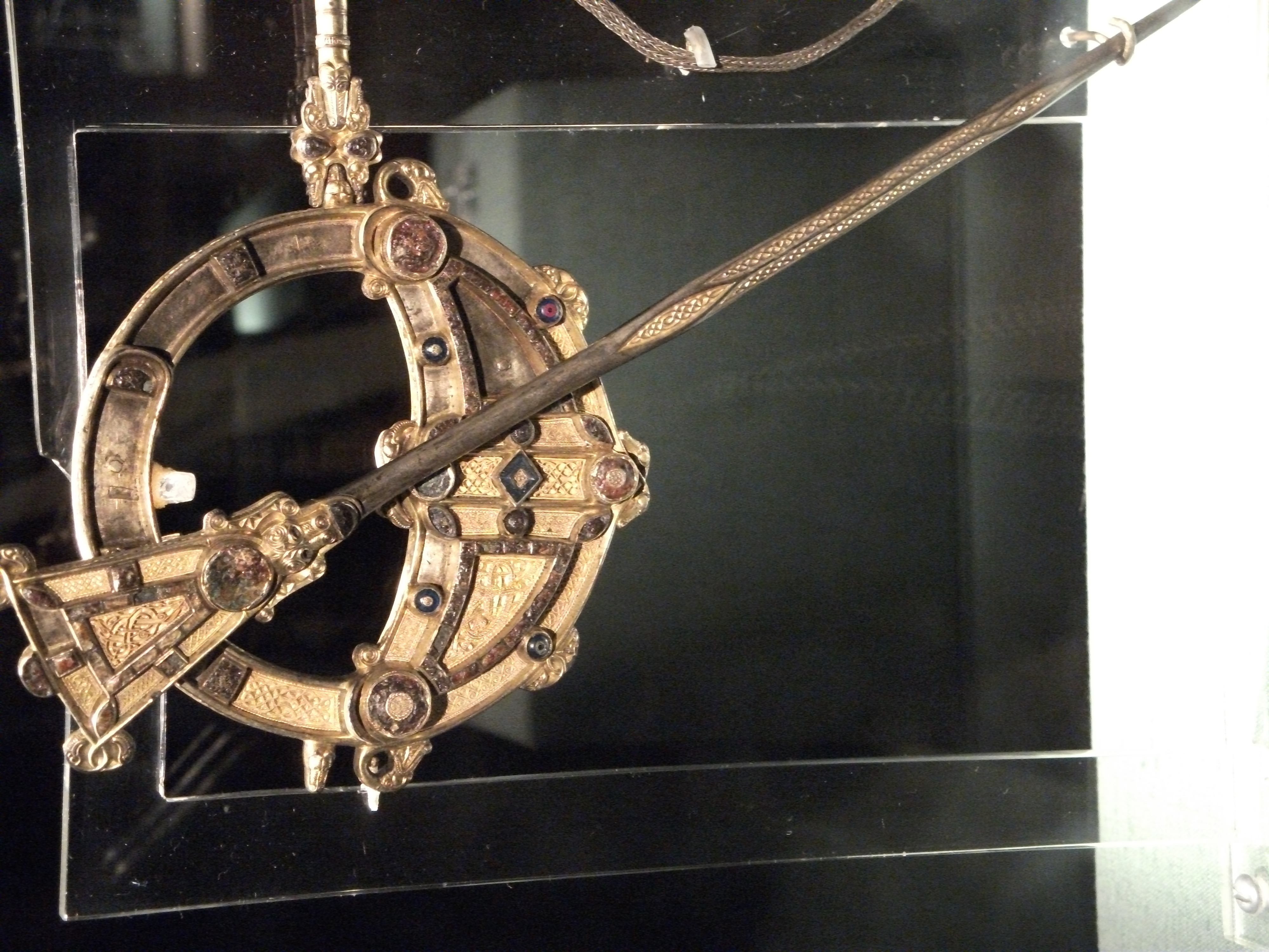 Tara Brooch in the National Museum of Ireland, Dublin. Front (feel free to rotate)